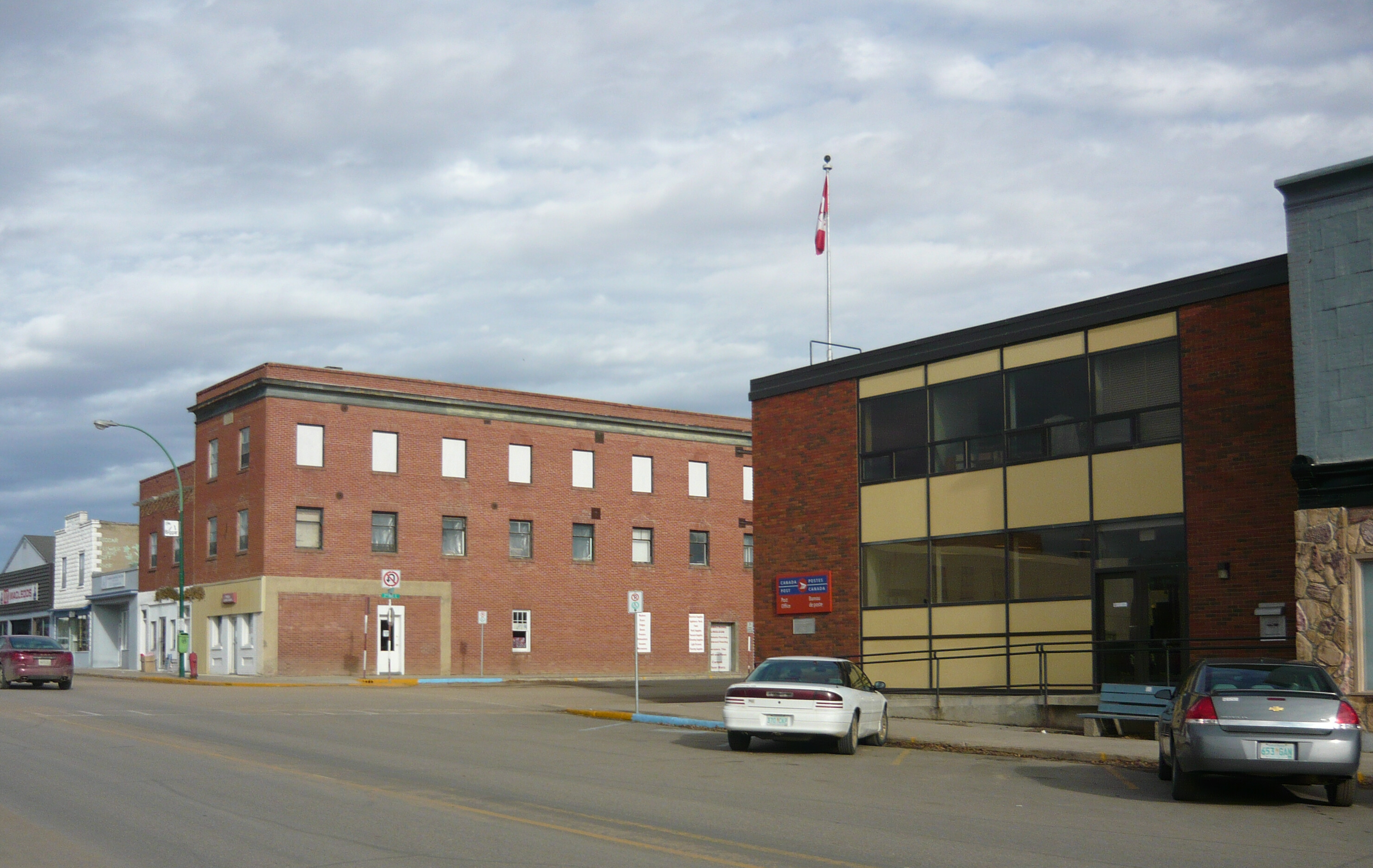 Buildings on Main Street (intersection of Second Avenue) in Biggar, Saskatchewan, Canada. The three-story building on the left is the Eamon Block (1919). The post office is the modern two-story building on the right.